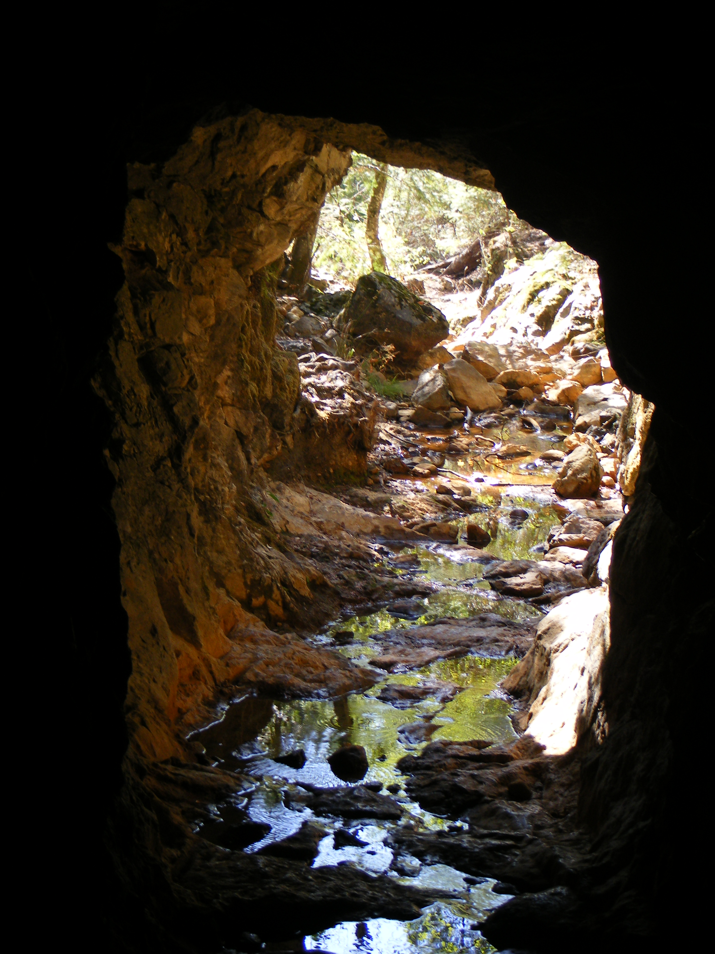 A view out from Hiller Tunnel. This tunnel was cut during the hydraulic mining era in Malakoff Diggins.